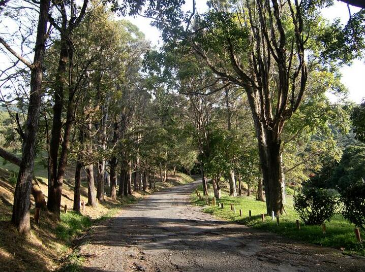 El Junko Parish, La Guaira State (formerly called Vargas) in Venezuela 4